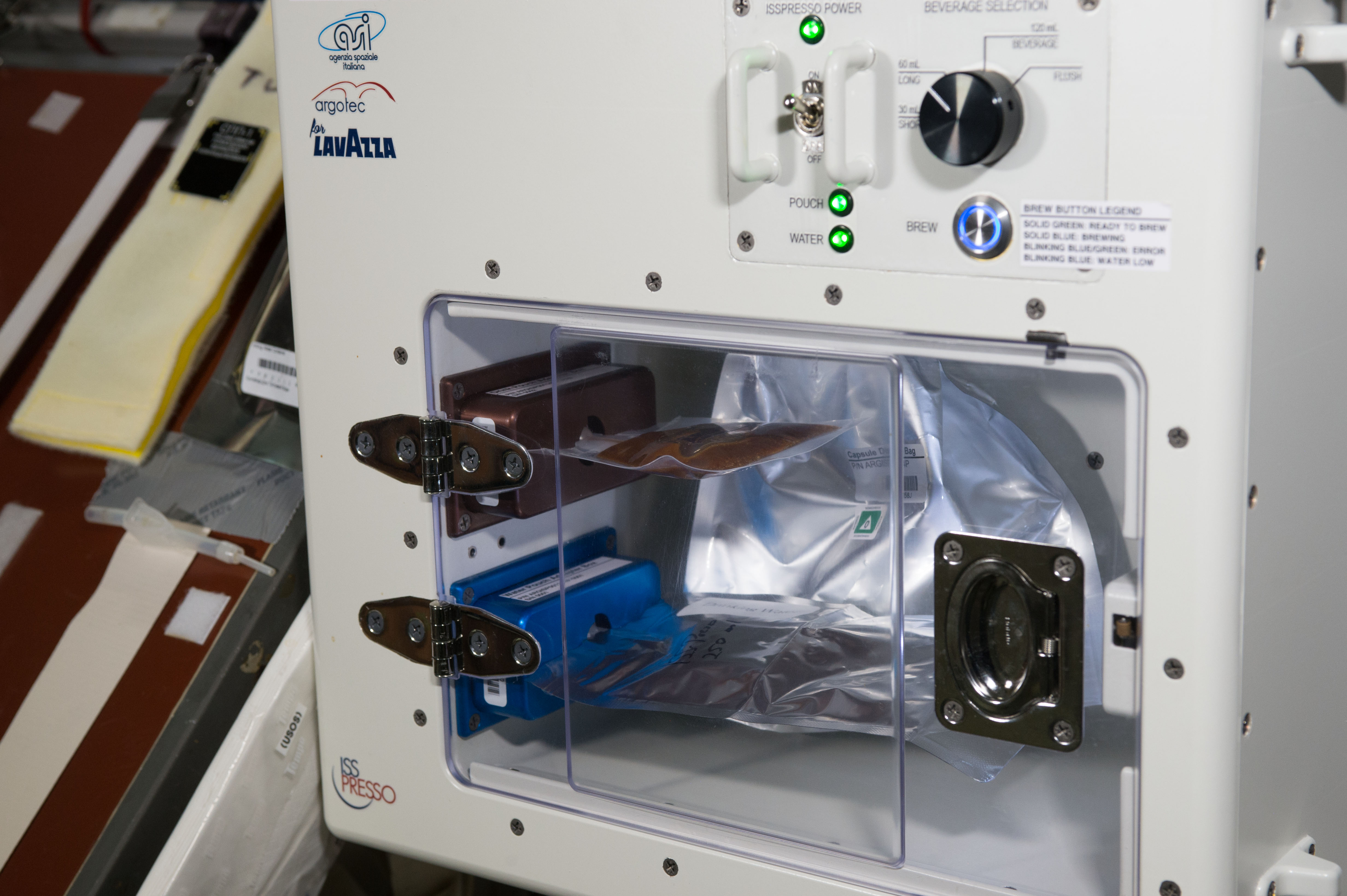 The new ISSpresso machine was recently installed on the International Space Station. In order to utilize the ISSpresso, a NASA standard drink bag is installed, along with a capsule containing the beverage item that the crew member wishes to drink. After the item has been brewed, the used capsule and the drink bag are removed.